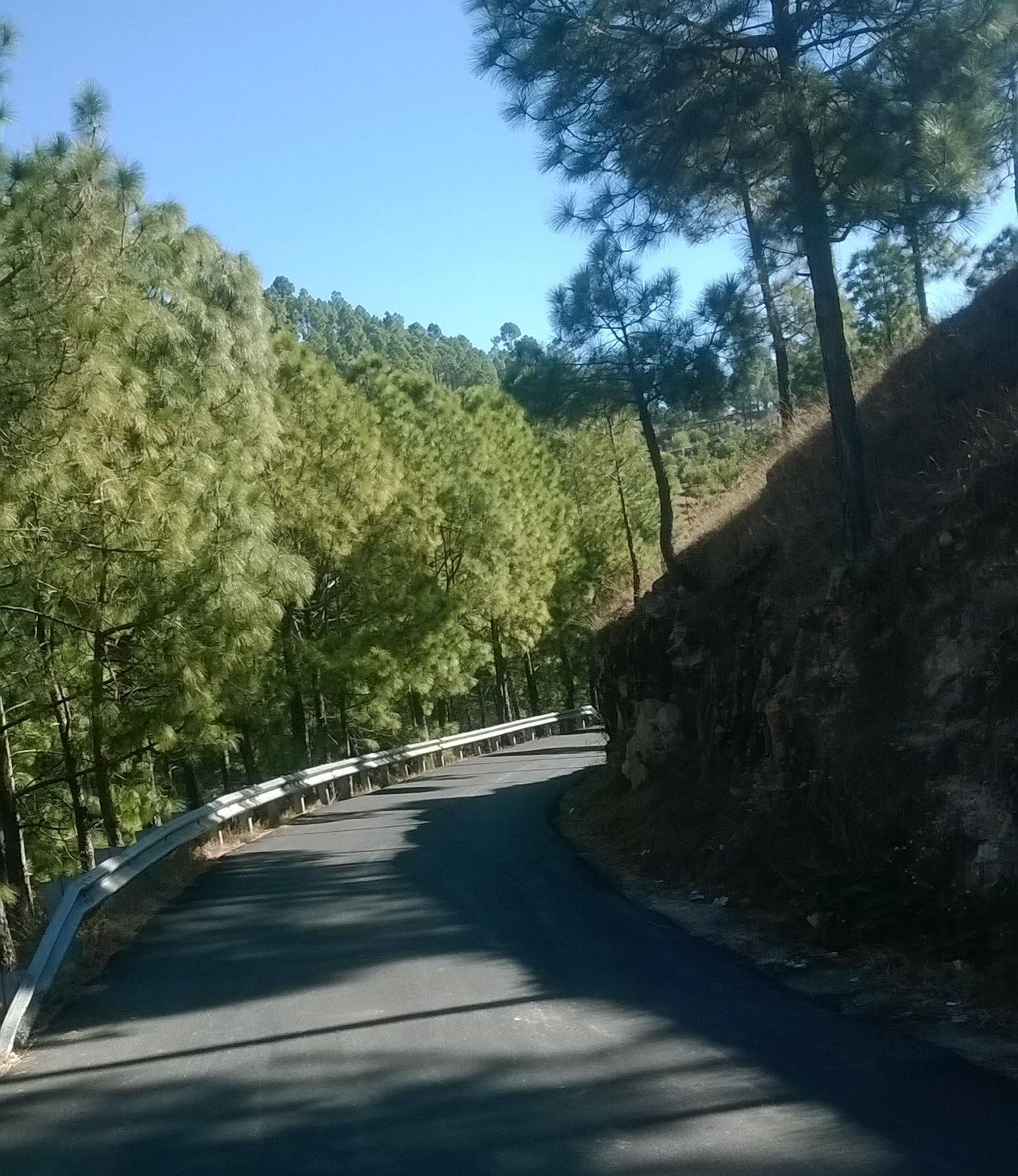 NH 309a passing near Kanda, Uttarakhand, India